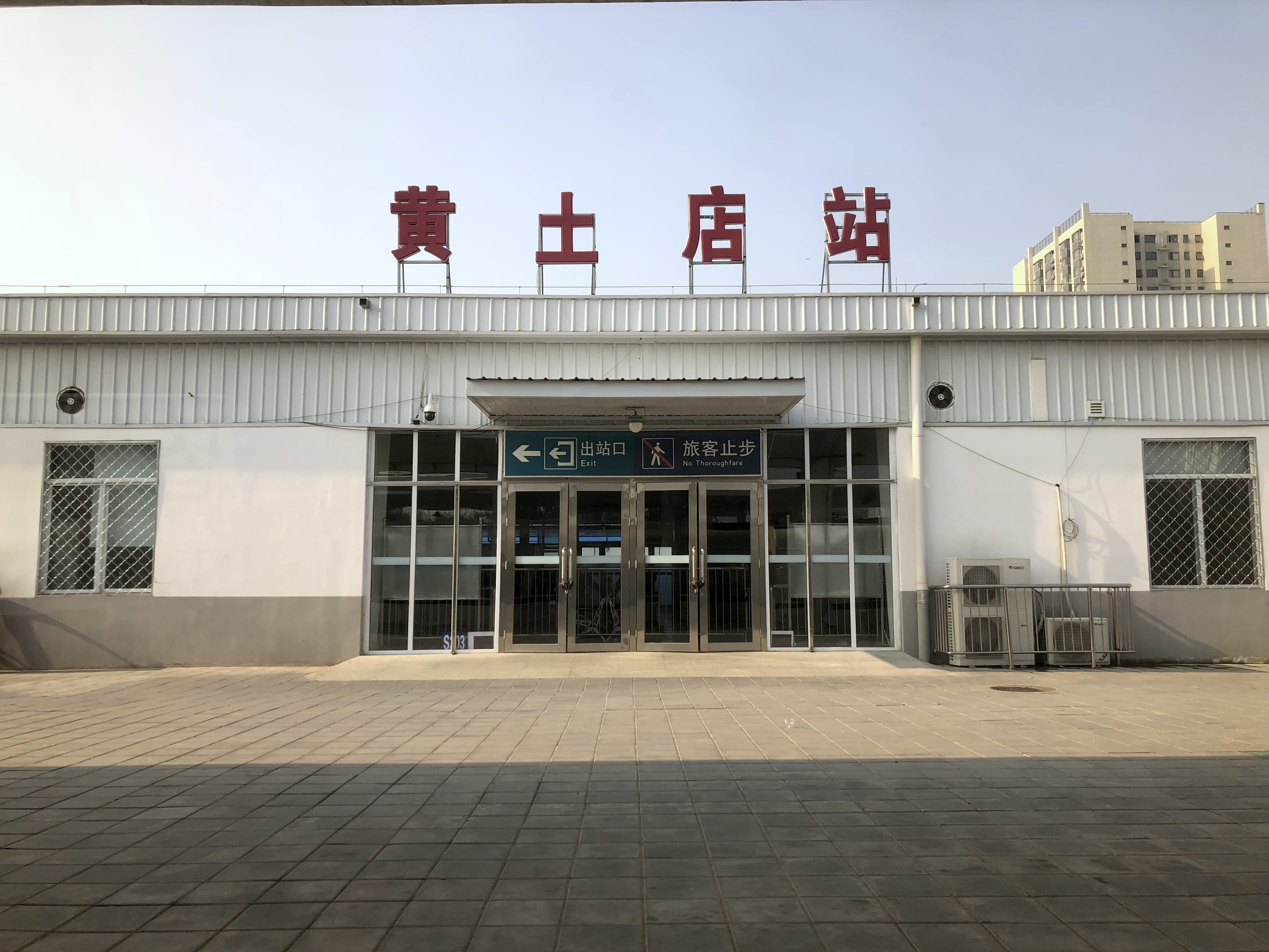 Huangtudian Railway Station